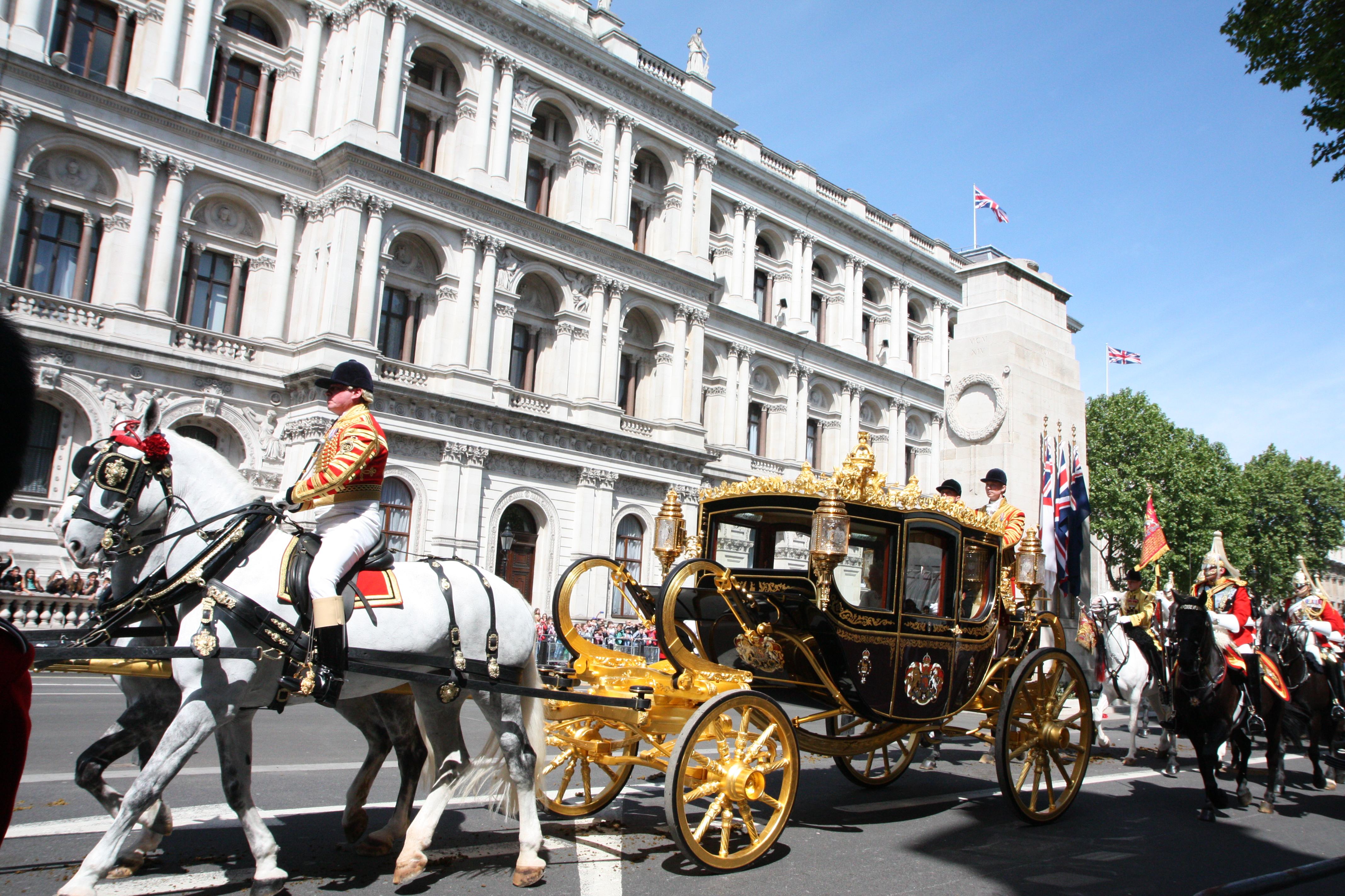 H.M. The Queen passes the Foreign & Commonwealth Office in a State coach to the Palace of Westminster for the State Opening of Parliament, 27 May 2015. © Crown Copyright/Patrick Tsui